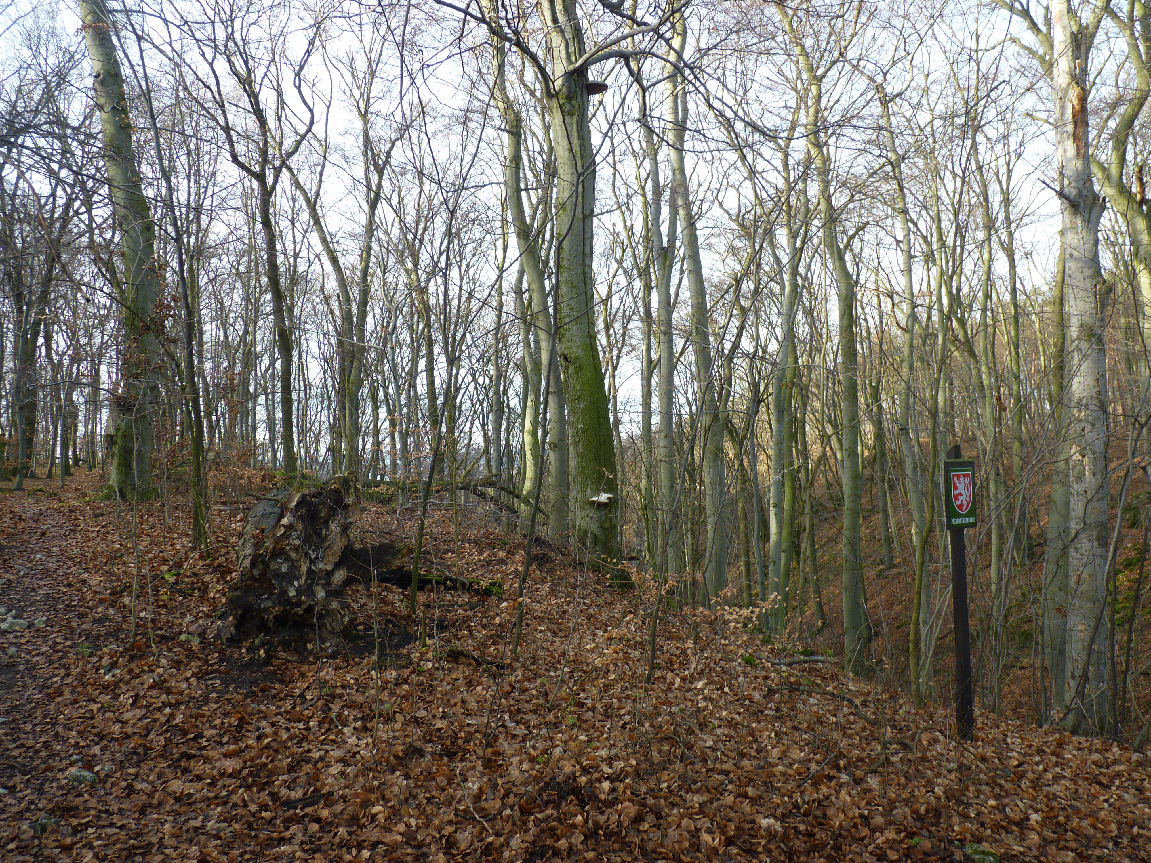 U Výpustku, nature reserve in Blansko District, South Moravian Region, Czech Republic